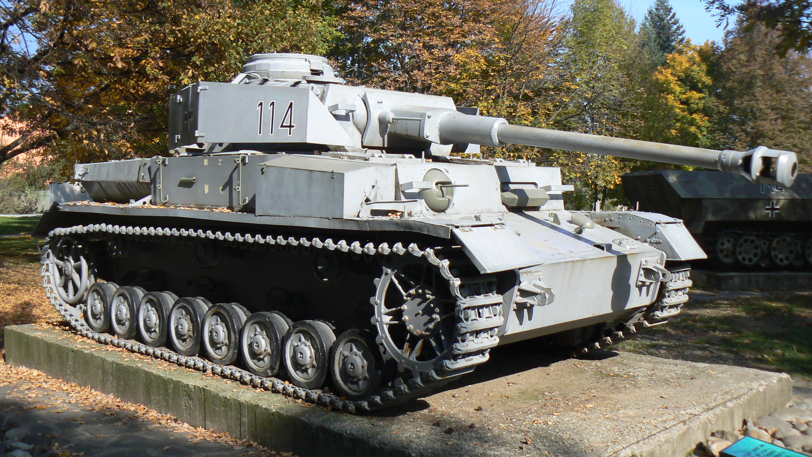 Museum of Slovak National Uprising.